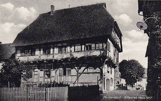 House built in Alemannic high beam construction as a community center. A dating of the house indicates the year 1317. The previously unused empty monument is one of the oldest surviving timber-framed houses in southern Germany.